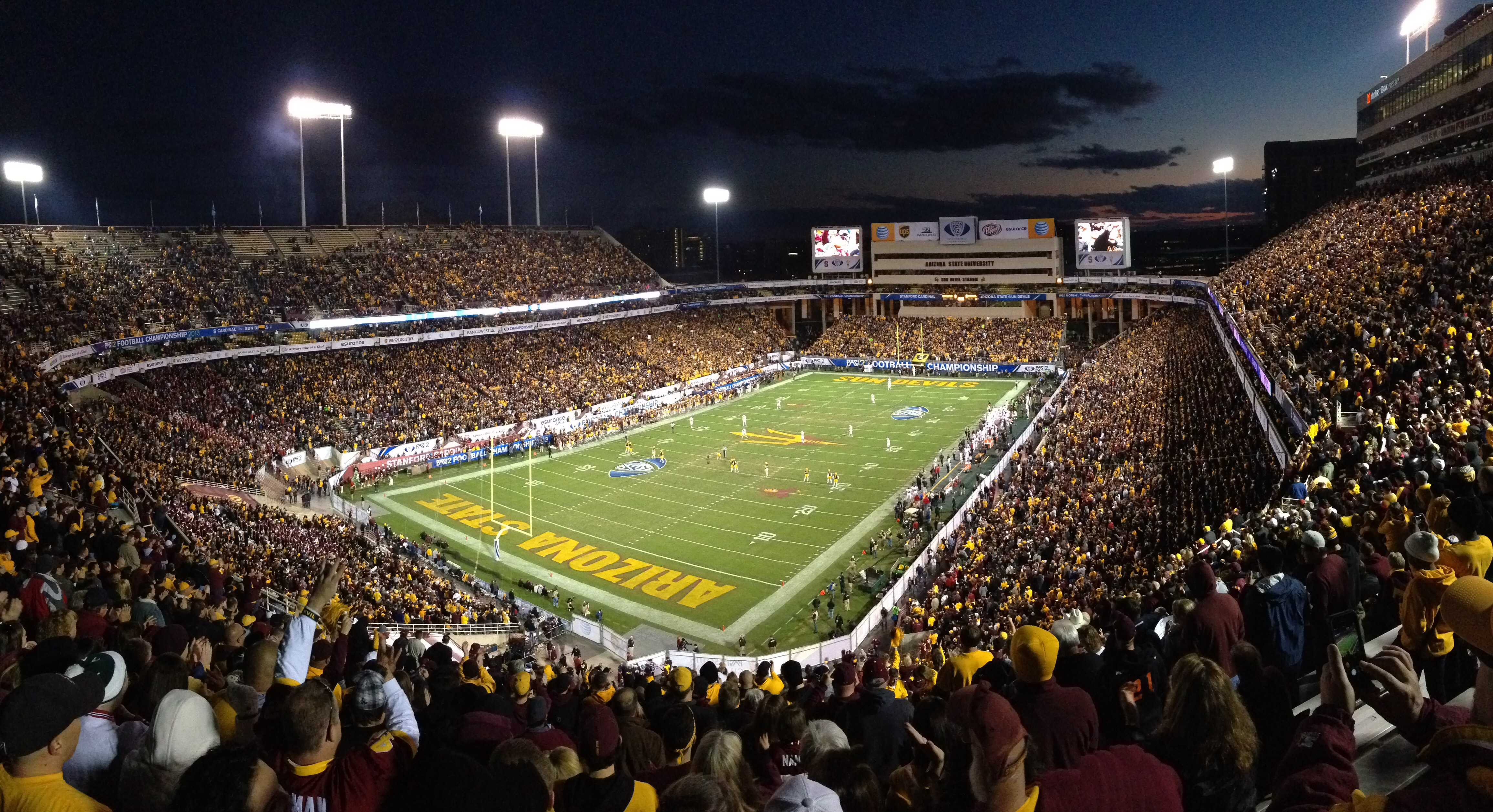 Pac-12 Championship game on December, 7 2013